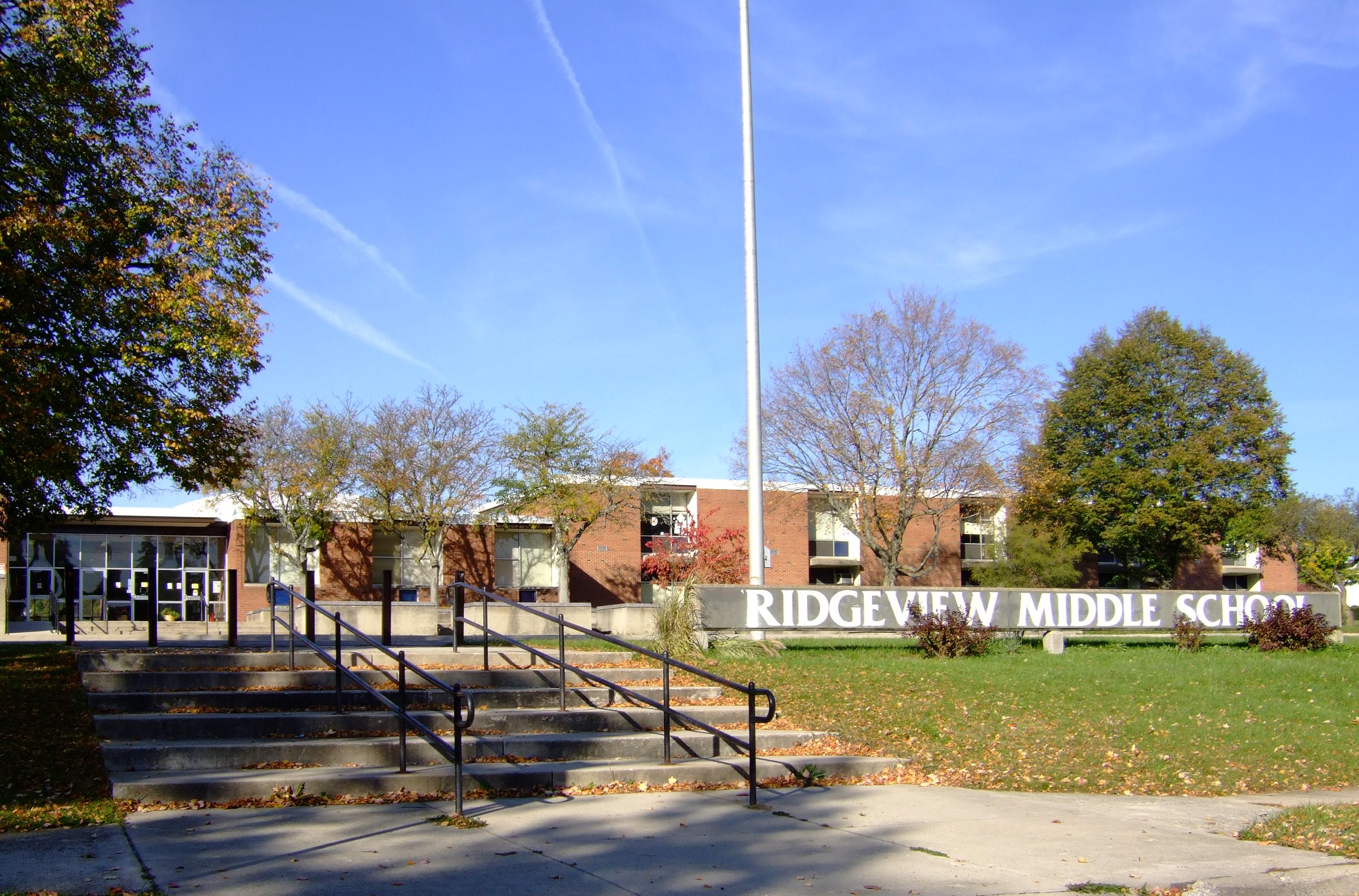 Ridgeview Middle School in Columbus, Ohio, USA.